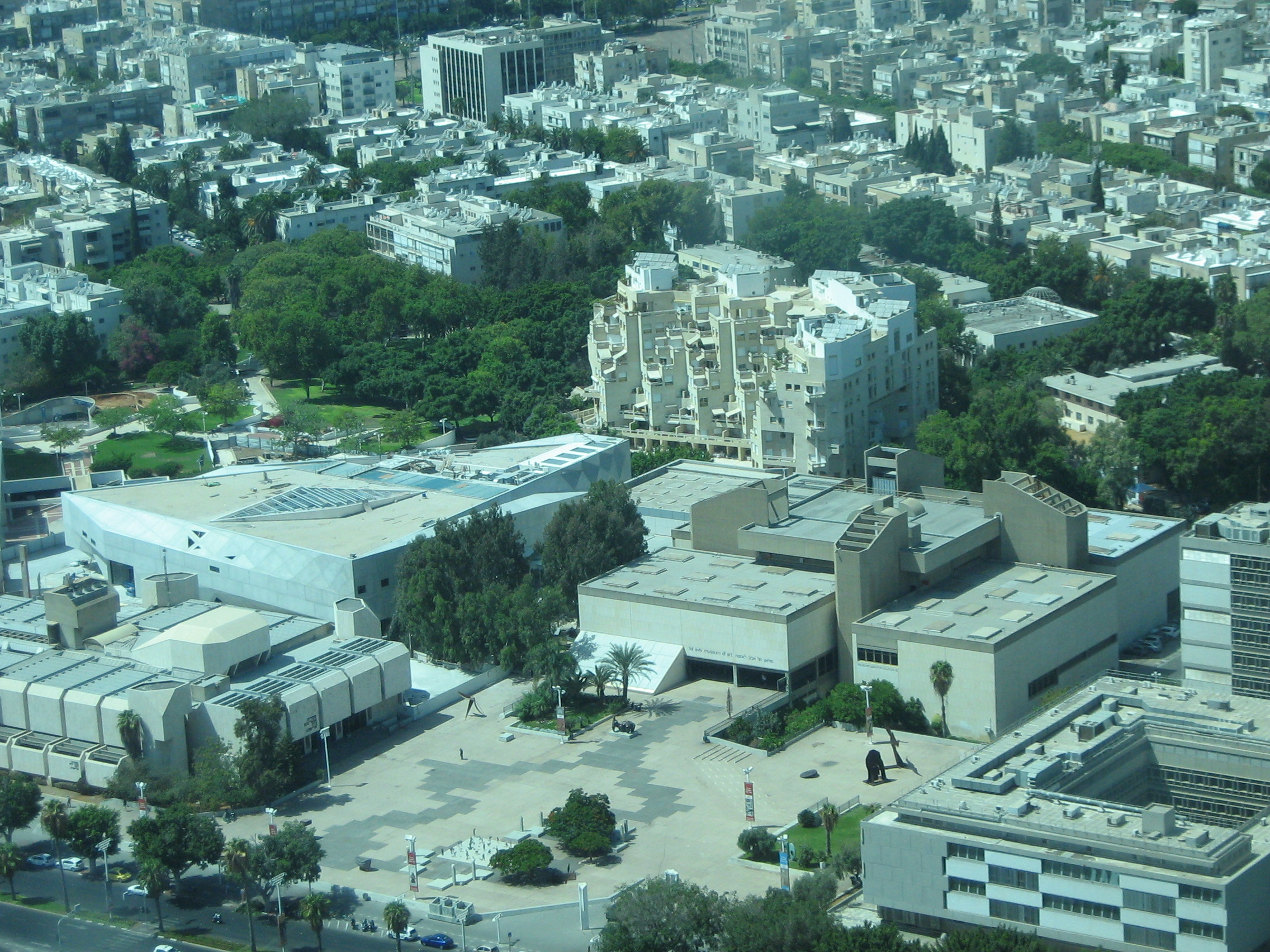 Tel Aviv Museum of Art, Beit Ariela (Library), Court House, view from Azrieli towers